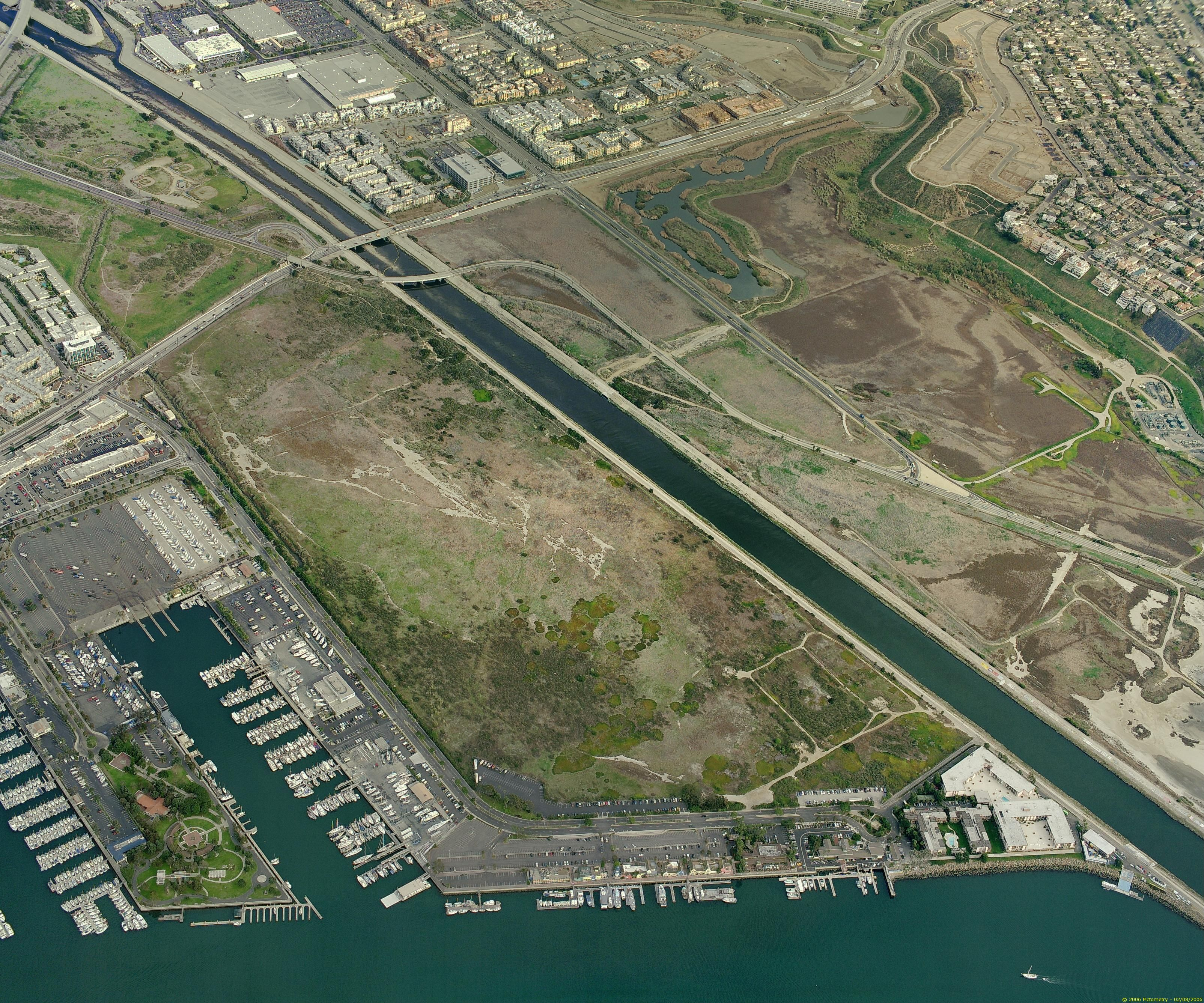 Aerial view of Ballona Wetlands, Ballona Estuary and Marina del Rey Harbor